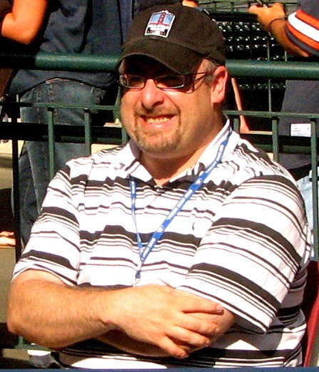 "Kansas City Starcolumnist Joe Posnanski, the author of The Soul of Baseball, does an autograph session before the July 20 Tigers-Royals game." This file has been extracted from another file: Joe Posnanski 2007.jpeg